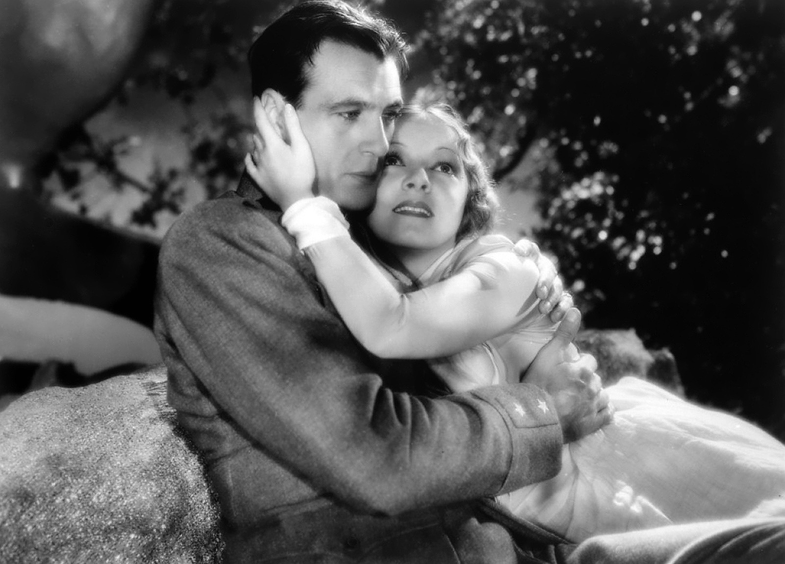 Film still showing Gary Cooper and Helen Hayes in A Farewell to Arms, 1932